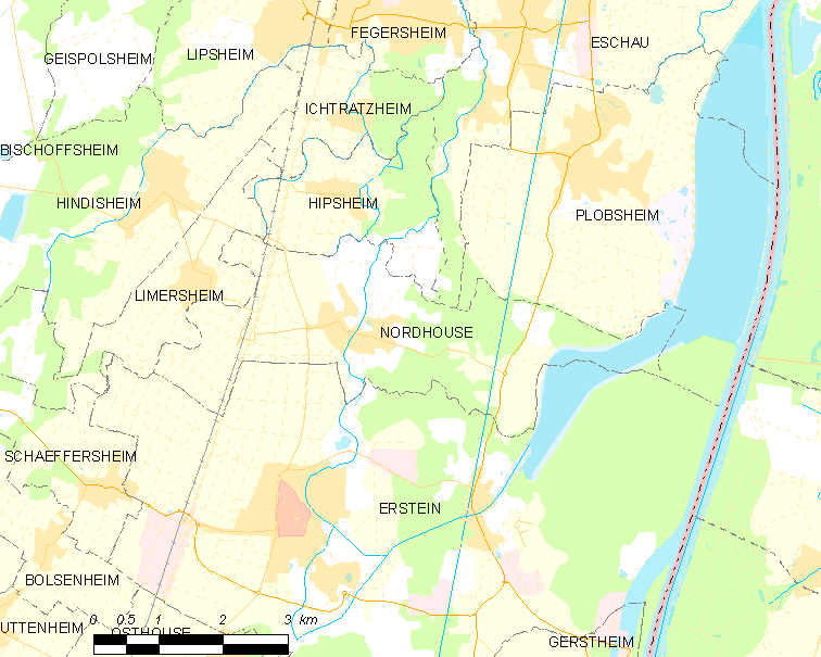 Map of French municipality